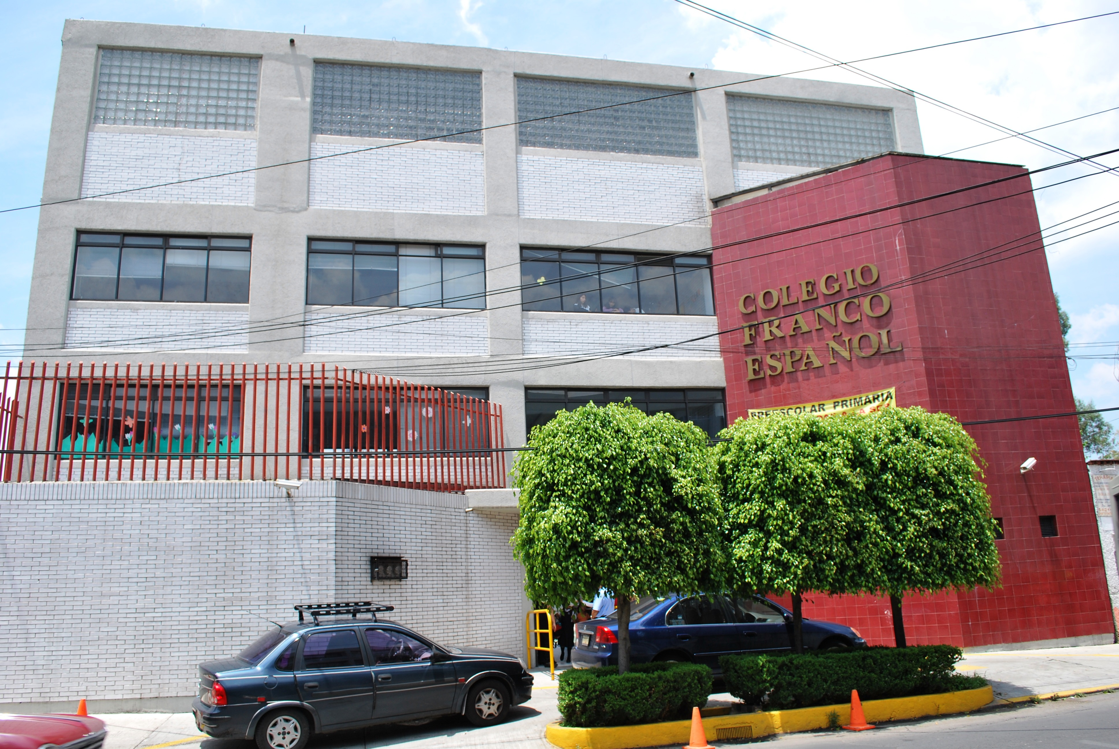 Colegio Franco Español ("French-Spanish School"), a private primary, secondary, and preparatory school in the Tlalpan borough of Mexico City